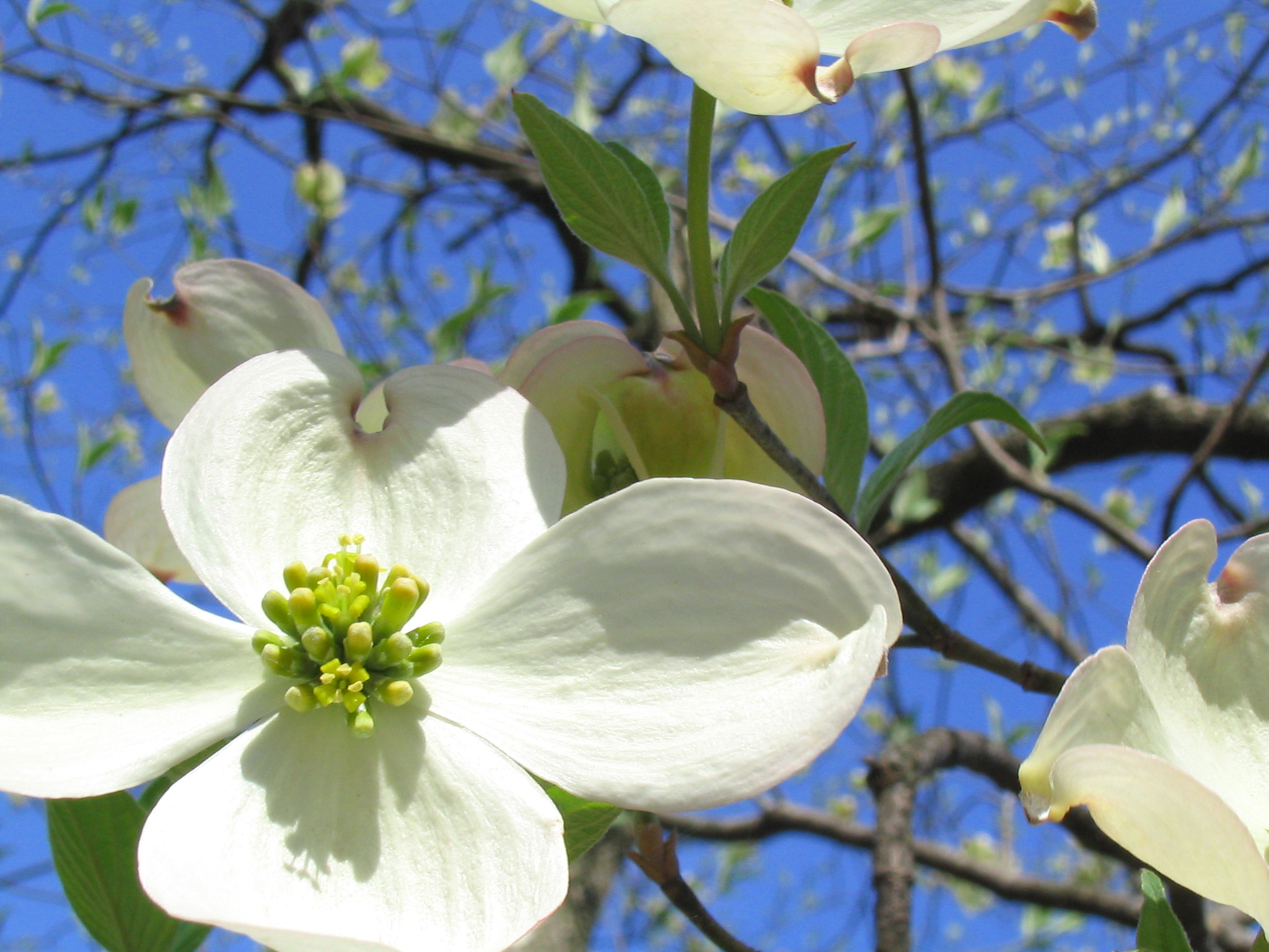 A flowering dogwood blooming in April in Missouri.